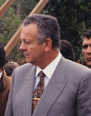 Jonathan Padwe explaining the land crisis with the aché people to then-president Juan Carlos Wasmosy and US Ambassador Robert White.